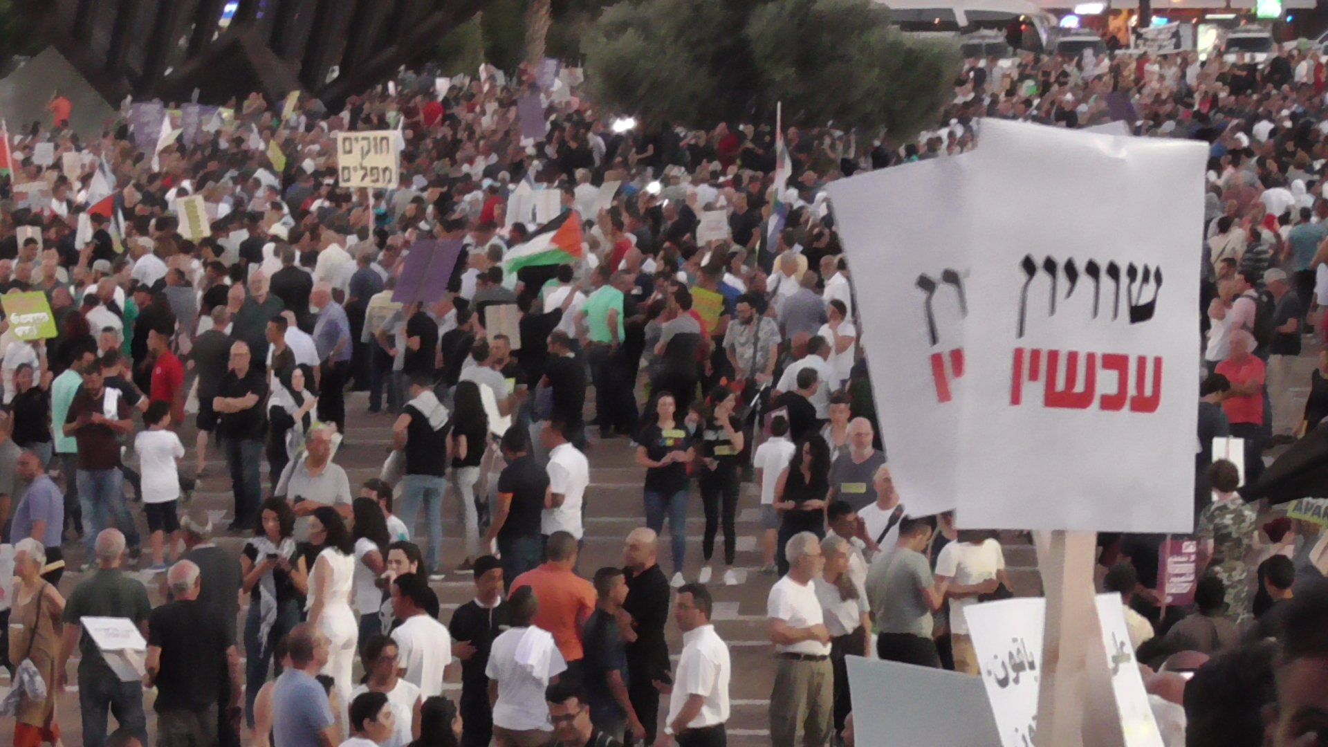 Protest against Basic Law: Israel as the Nation-State of the Jewish People. Tel Aviv, Aug 11 2018